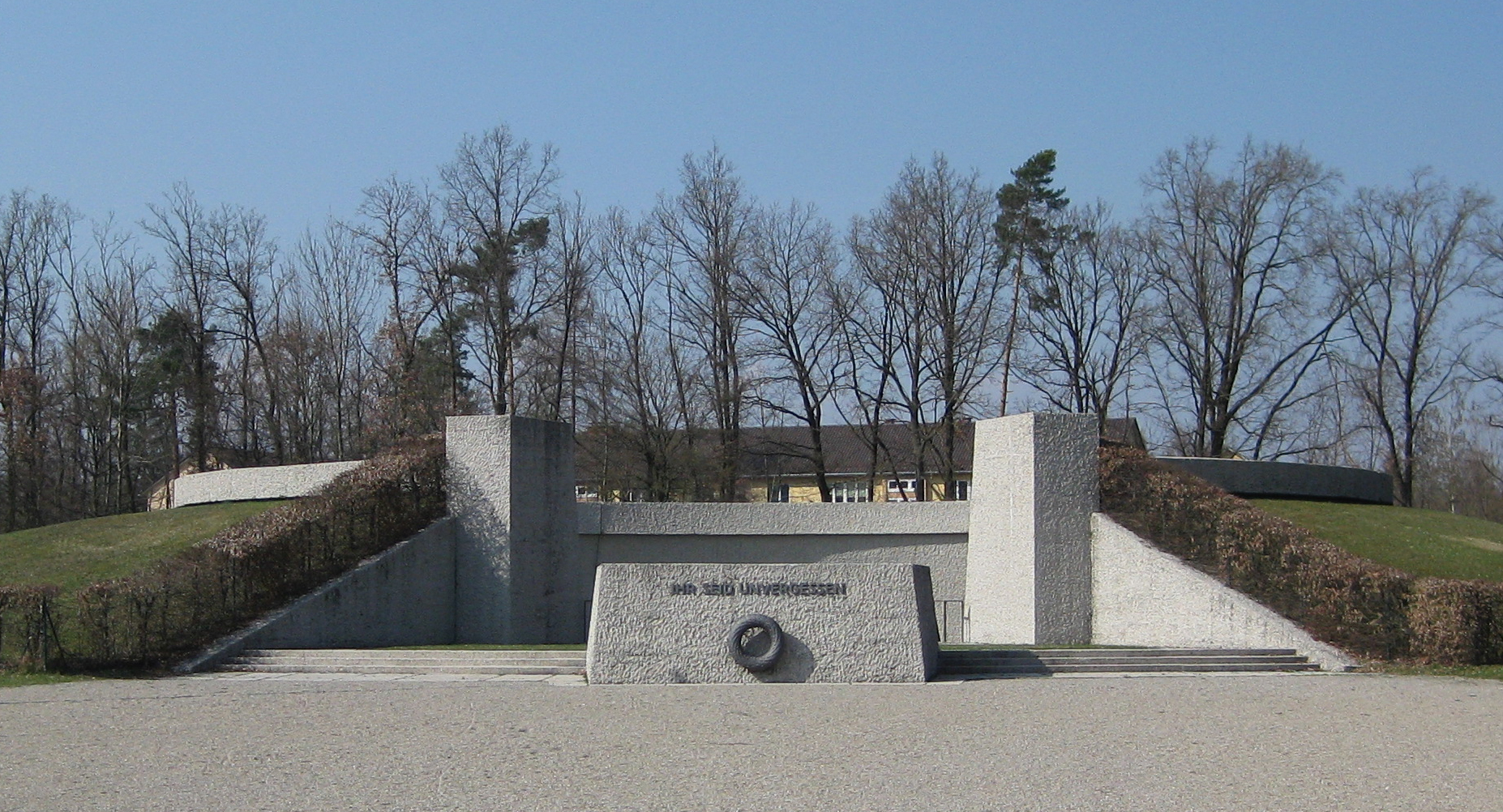 German Air Force Memorial (Outside; Front)